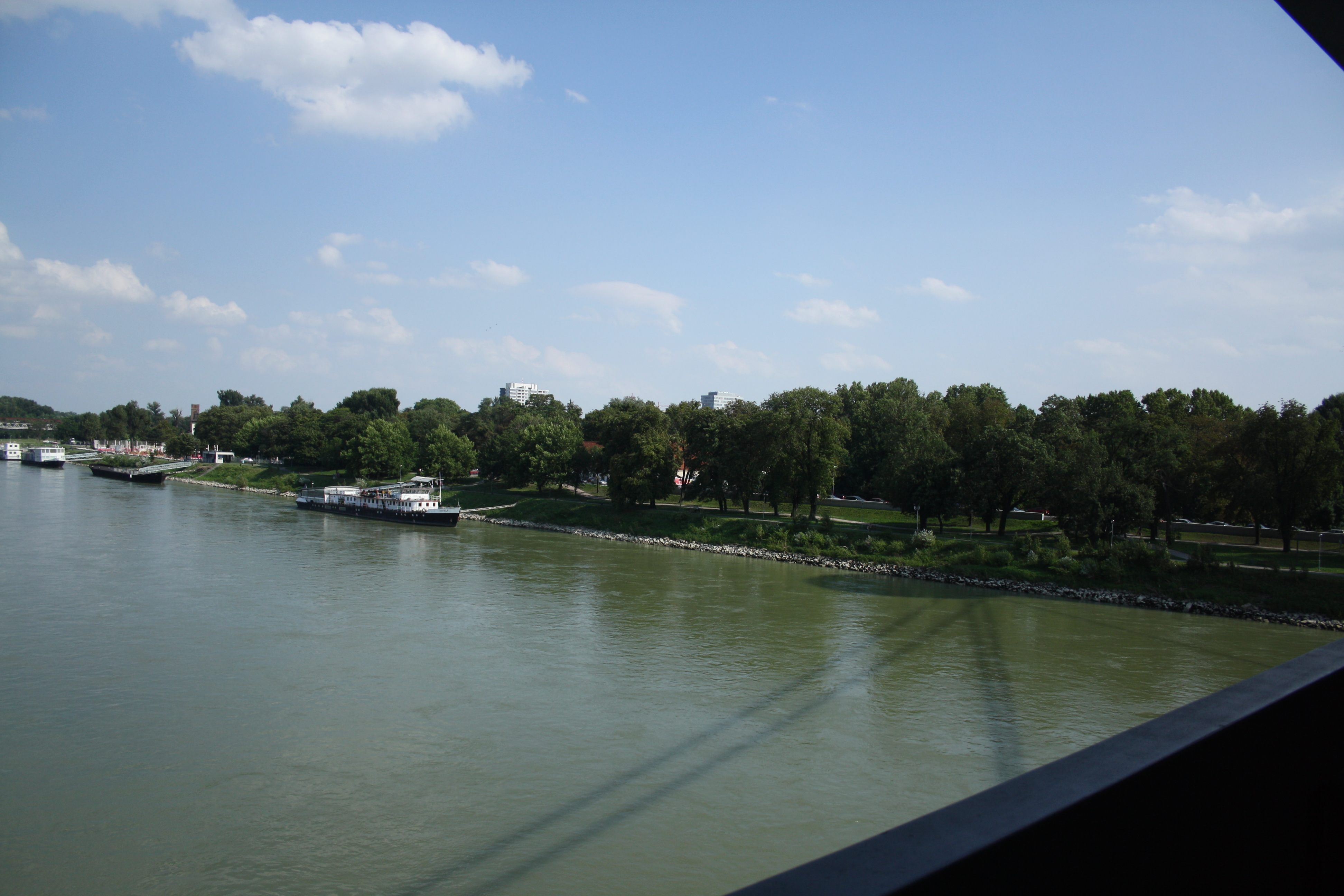 Janko Kraľ park in Petržalka from Nový most.